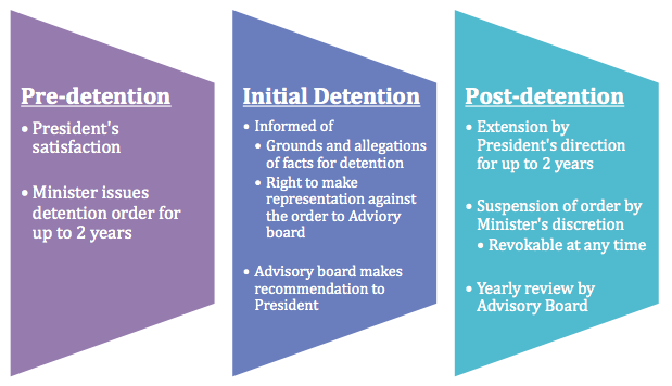 A diagram showing the procedure for preventive detention under the Internal Security Act (Cap. 185, 1985 Rev. Ed.) ("ISA") of Singapore.